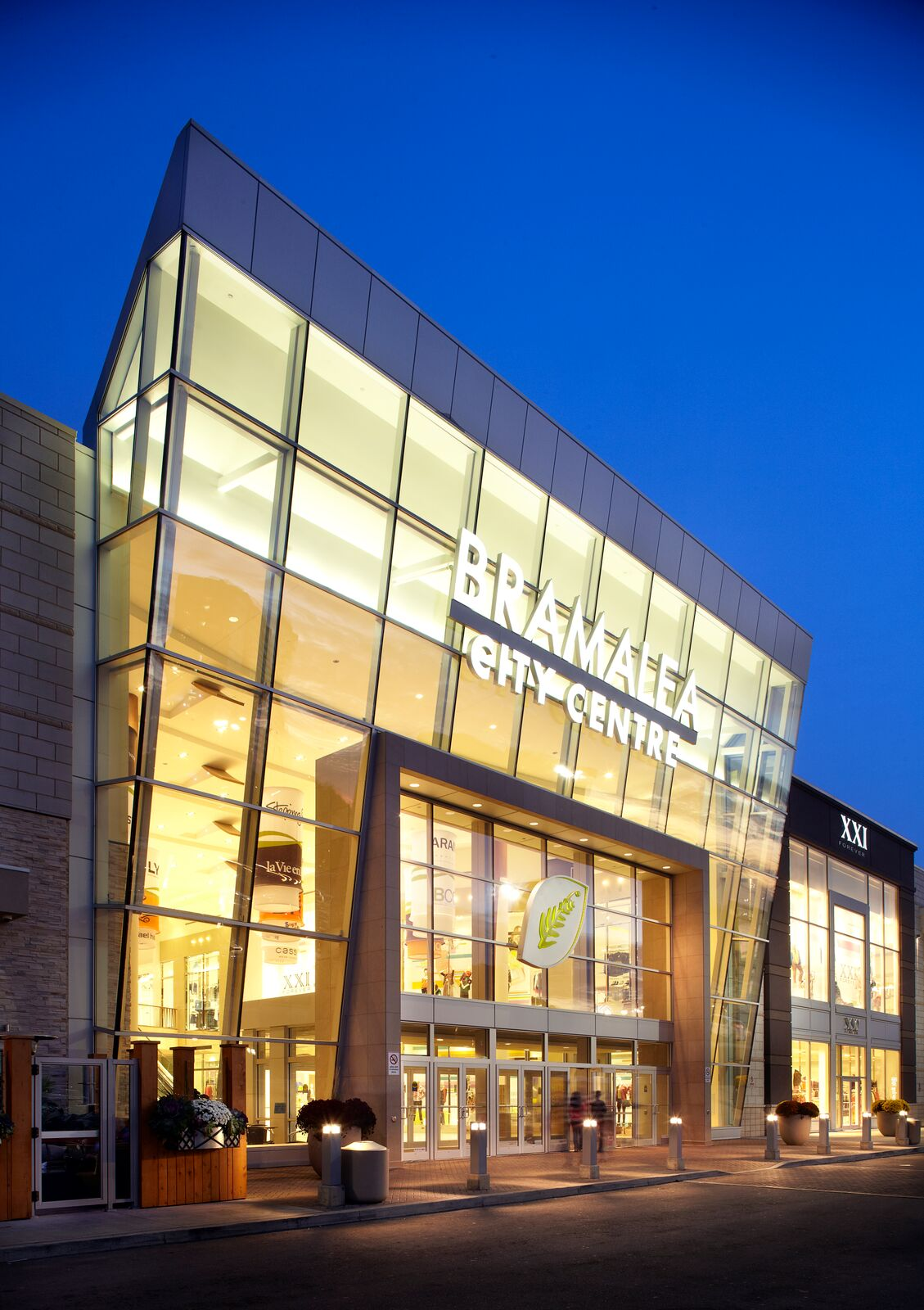 Bramalea City Centre Front Entrance of Shopping Mall